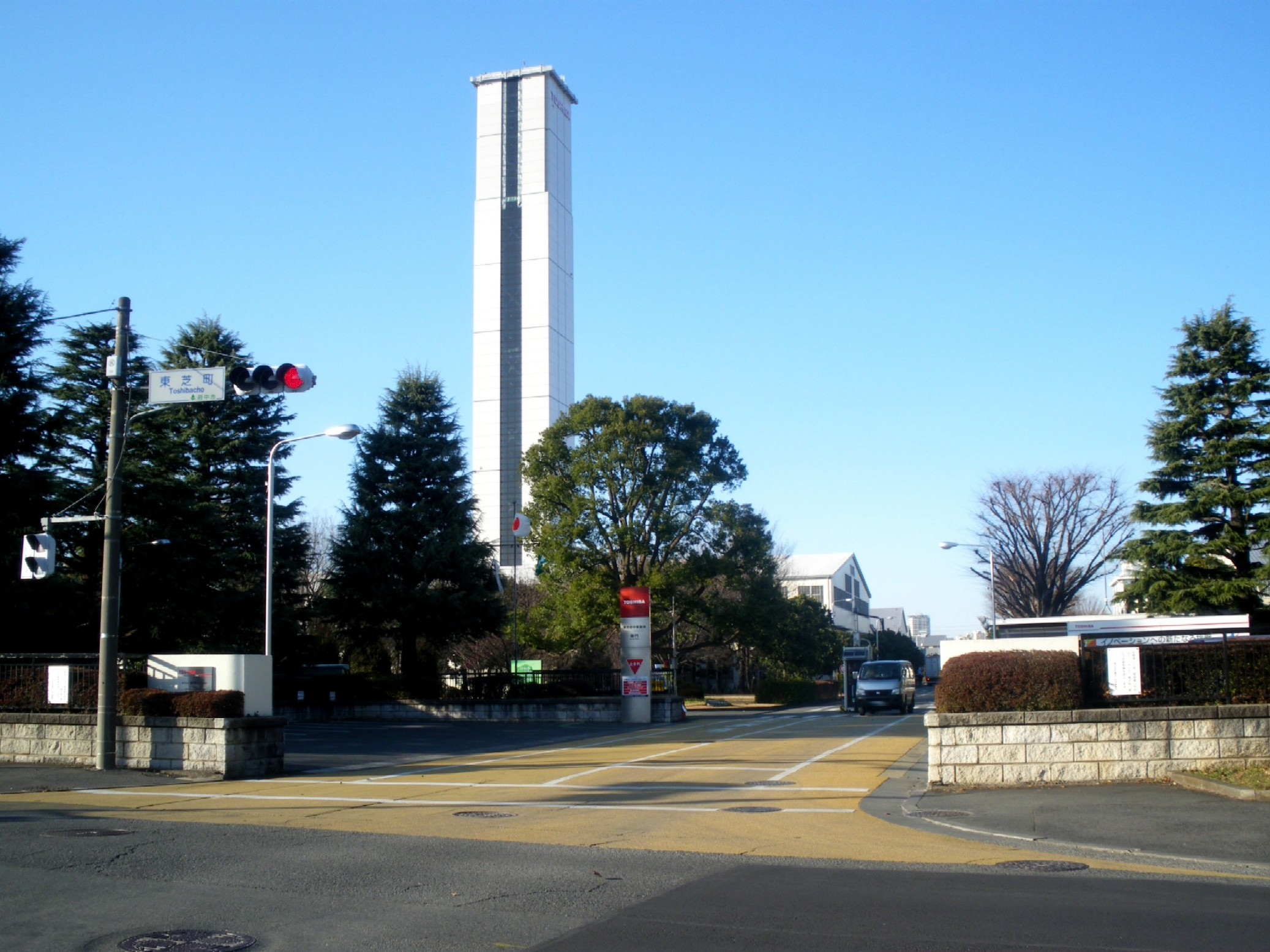 A photo of the south gate of Toshiba Fuchu Factory,Toshibacho,Fuchu city,Tokyo,Japan.